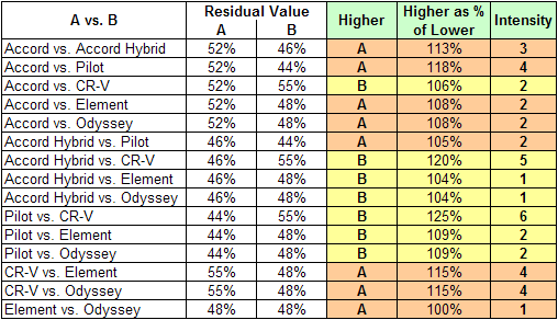 Part of a series of images to illustrate an article on the Analytic Hierarchy Process